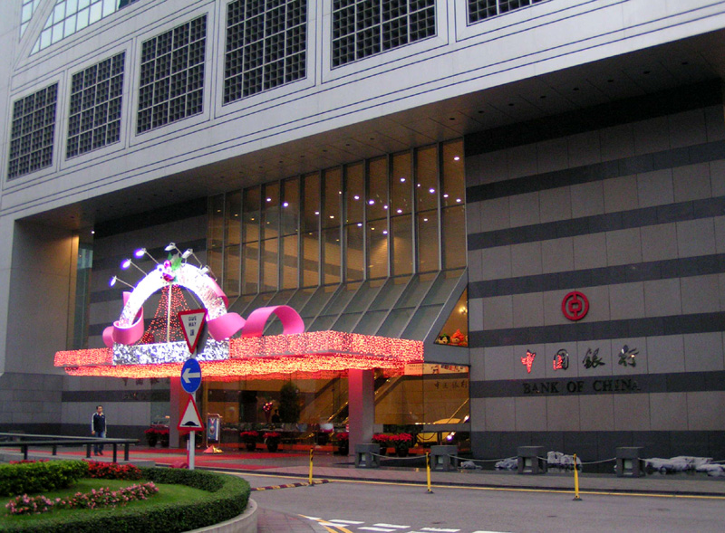 Bank of China tower south entrance